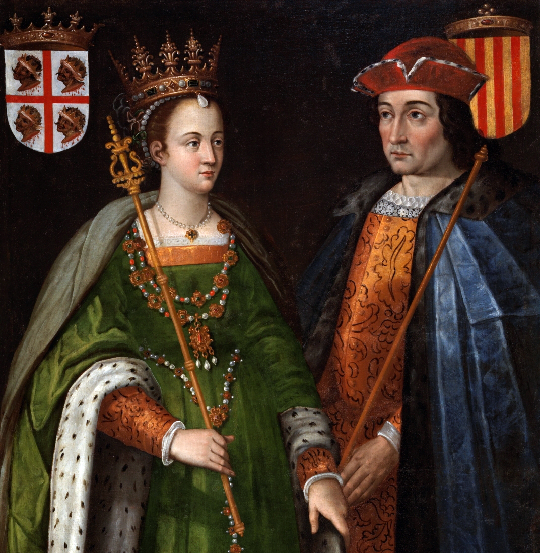 Detail of portrait of queen Petronila of Aragon and count Ramon Berenguer IV of Barcelona, oil canvas 1634 (Prado Museum). 244 x 127 cm.